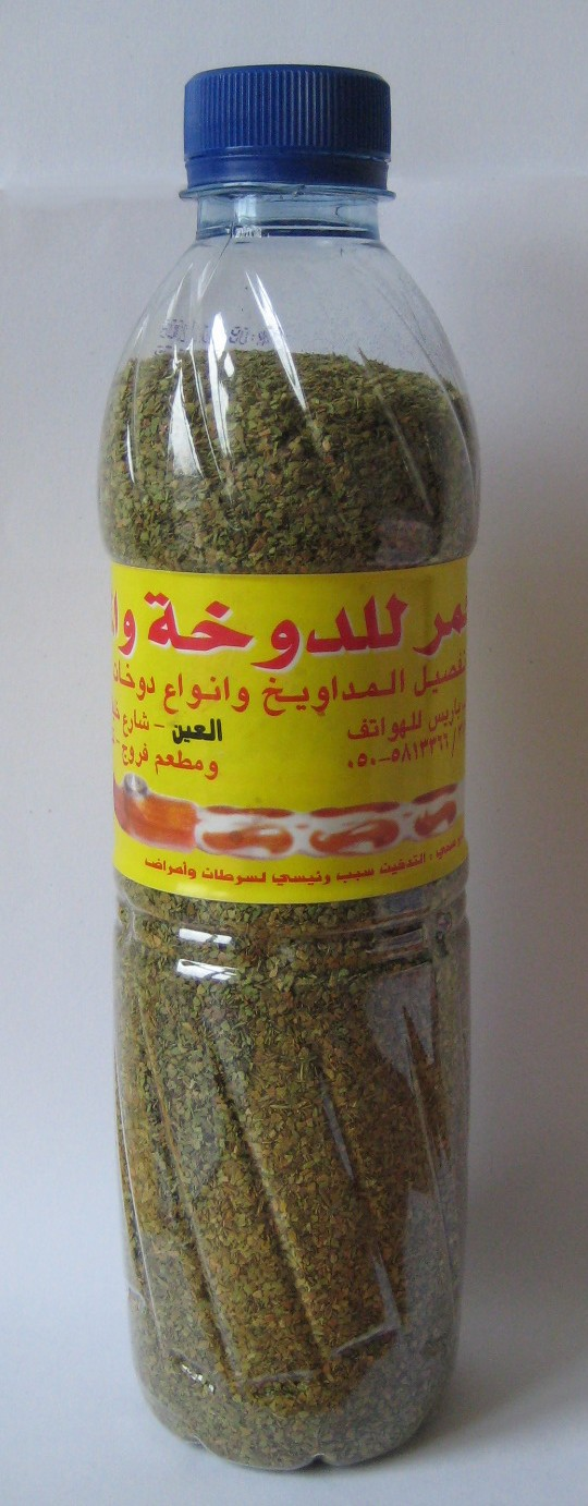 A bottle of dokha, an Arabic tobacco mix.